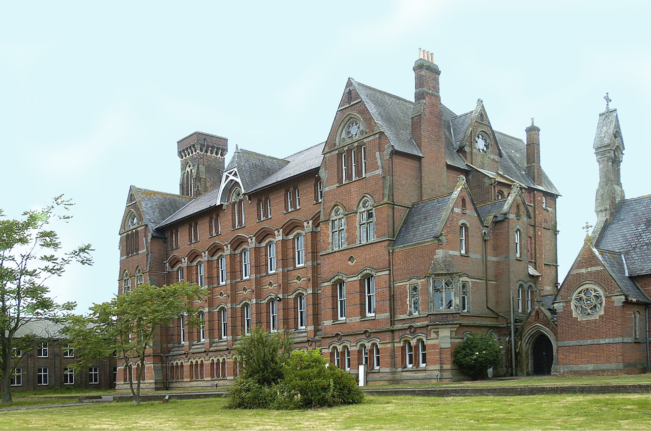 After closure, prior to refurbishment